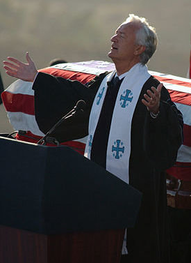 Simi Valley, Calif. (Jun. 11, 2004) - The Reverend Dr. Michael H. Wenning delivers the invocation during a sunset interment service held in honor of former President Ronald Reagan at the Ronald Reagan Presidential Library in Simi Valley, Calif. The observance concluded the weeklong state funeral services for Ronald Reagan, 40th President of the United States who passed away on June 5, 2004. U.S. Navy photo by Photographer's Mate 1st Class David A. Levy (RELEASED)